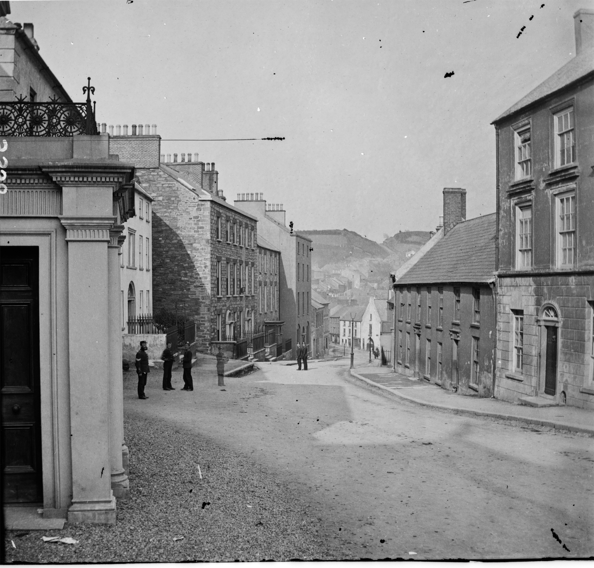 Found a typo in the title of this one! It reads: Steep street with Countynstables to centre of town with green land etc near sea. However, still think that Countynstables would have made a good name for a county's police force... Thanks to Vab2009 who recognised this as Downpatrick, Co. Down. Date: 1876-1882 NLI Ref.: STP_2228